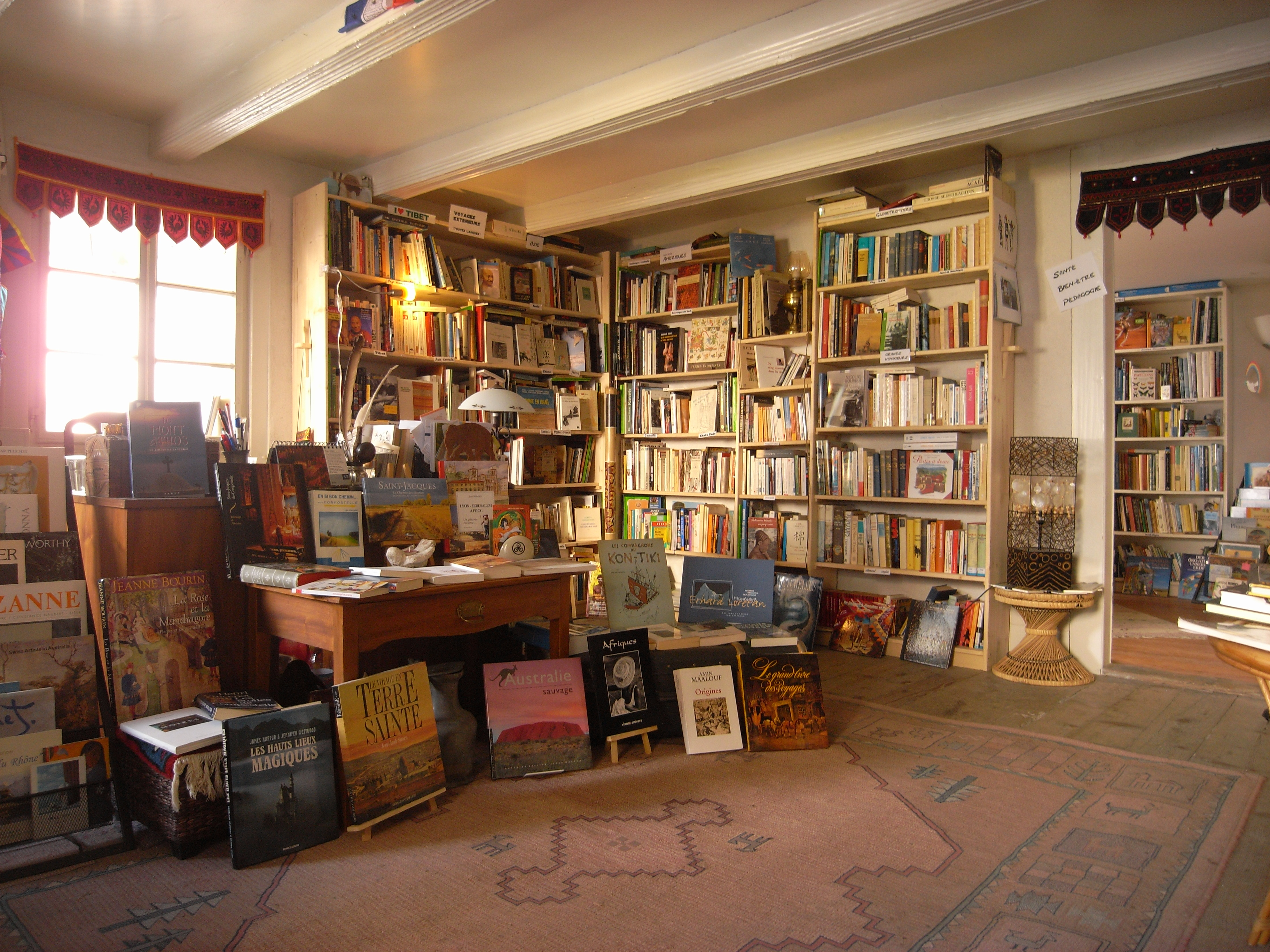 second-hand bookshop in Saint-Pierre-de-Clages (Canton Valais, Switzerland).